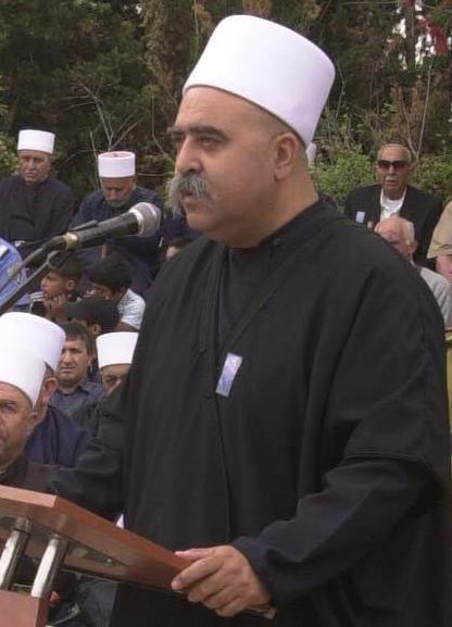 Shaikh Mowafaq Tarif (موفق طريف), the spiritual leader of the Druze community in Israel since 1993.